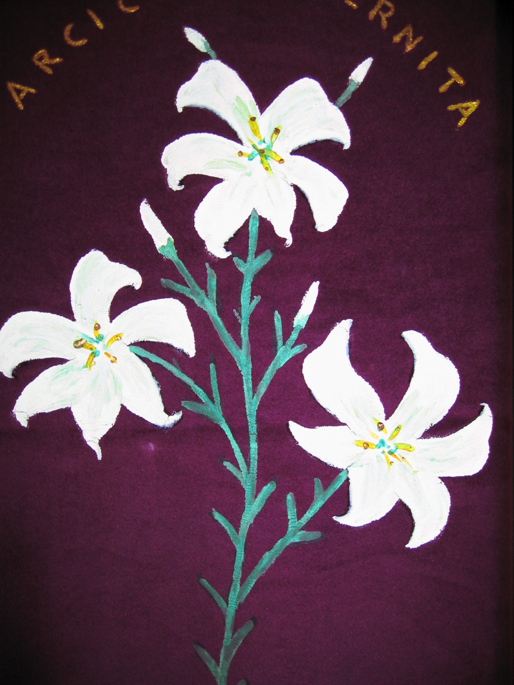 St. Joseph brotherhood Taranto